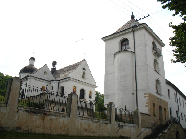 Lvov. Basilian monastery of St. Onuphrius. Cathedral and Belltower